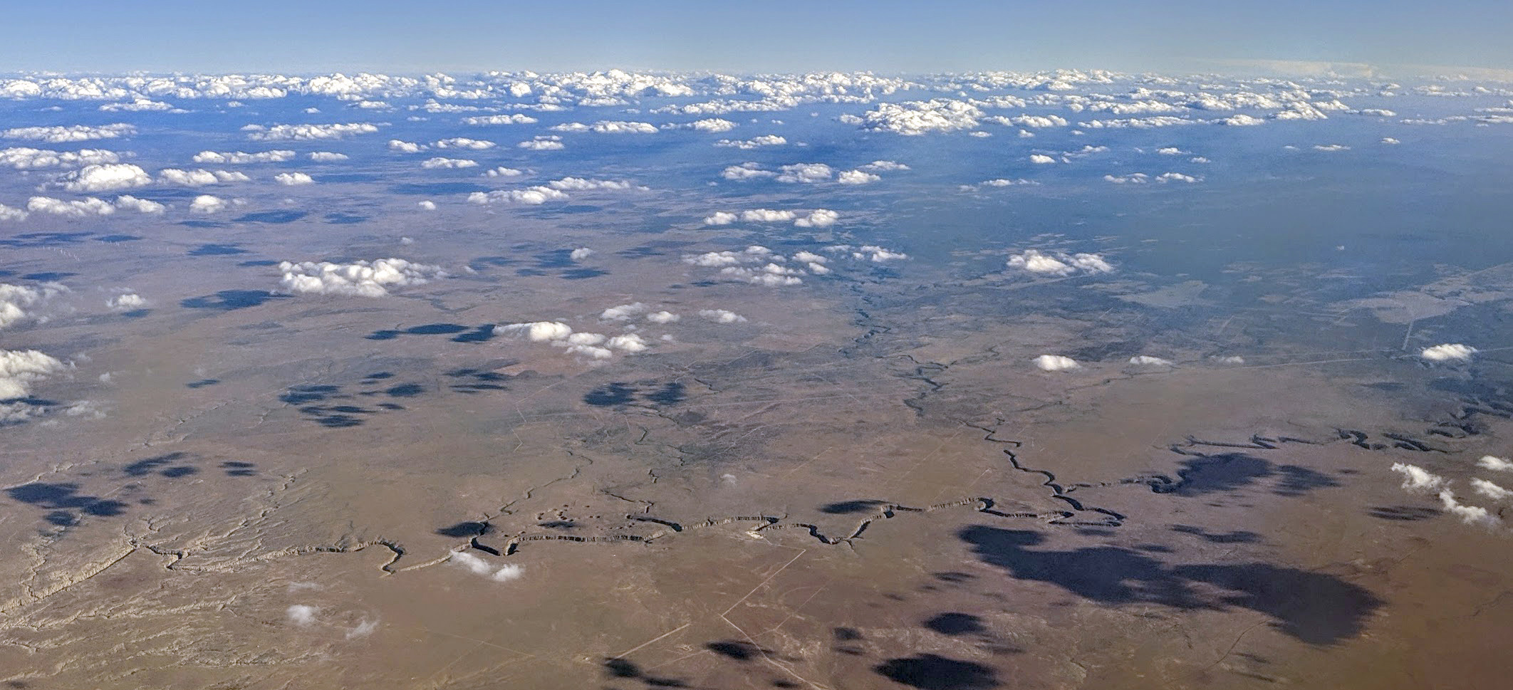 Aerial view of Chevelon Creek (left-to-right) and Potato Wash (center, receding into distance) in Navajo County, Arizona